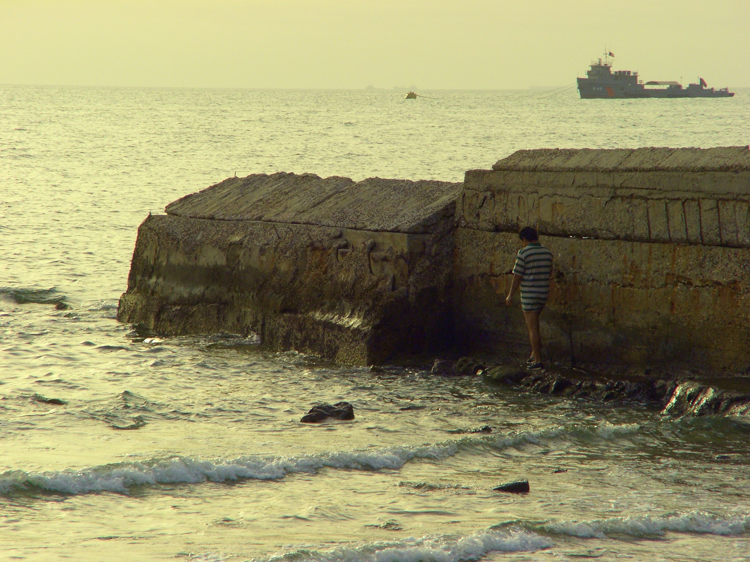 Mangaf is a suburb of Kuwait city. It mainly contains big and small, old and new Apartment buildings. Some smaller shops, one Electronics and shopping area with a big Supermarket (Sultan center) and a small beach.